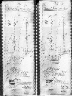 Canadian patent #3738 (1874)